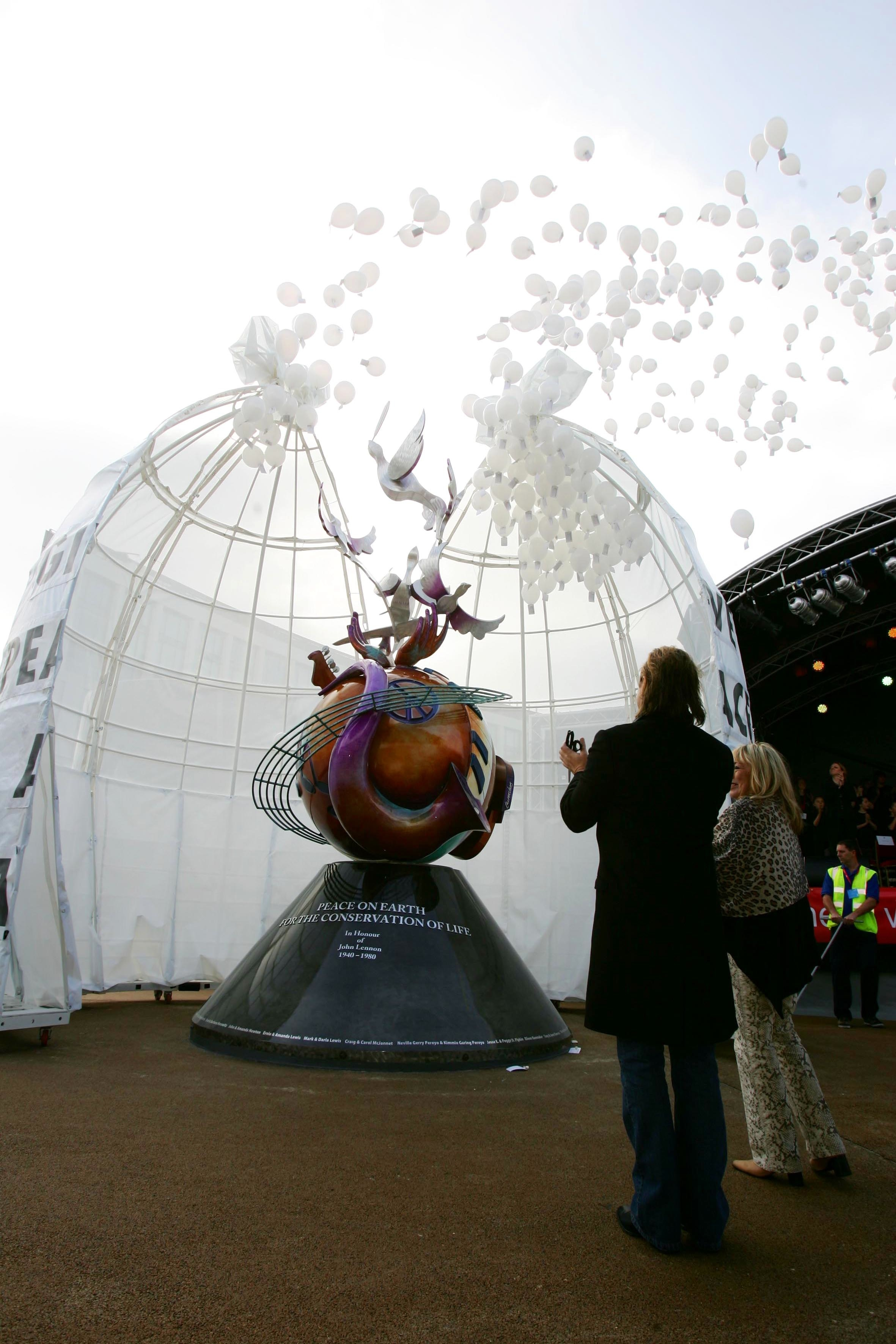 Photograph of the unveiling of the John Lennon Peace Monument, in Liverpool, with Julian and Cynthia Lennon in the foreground and white balloons rising to the sky